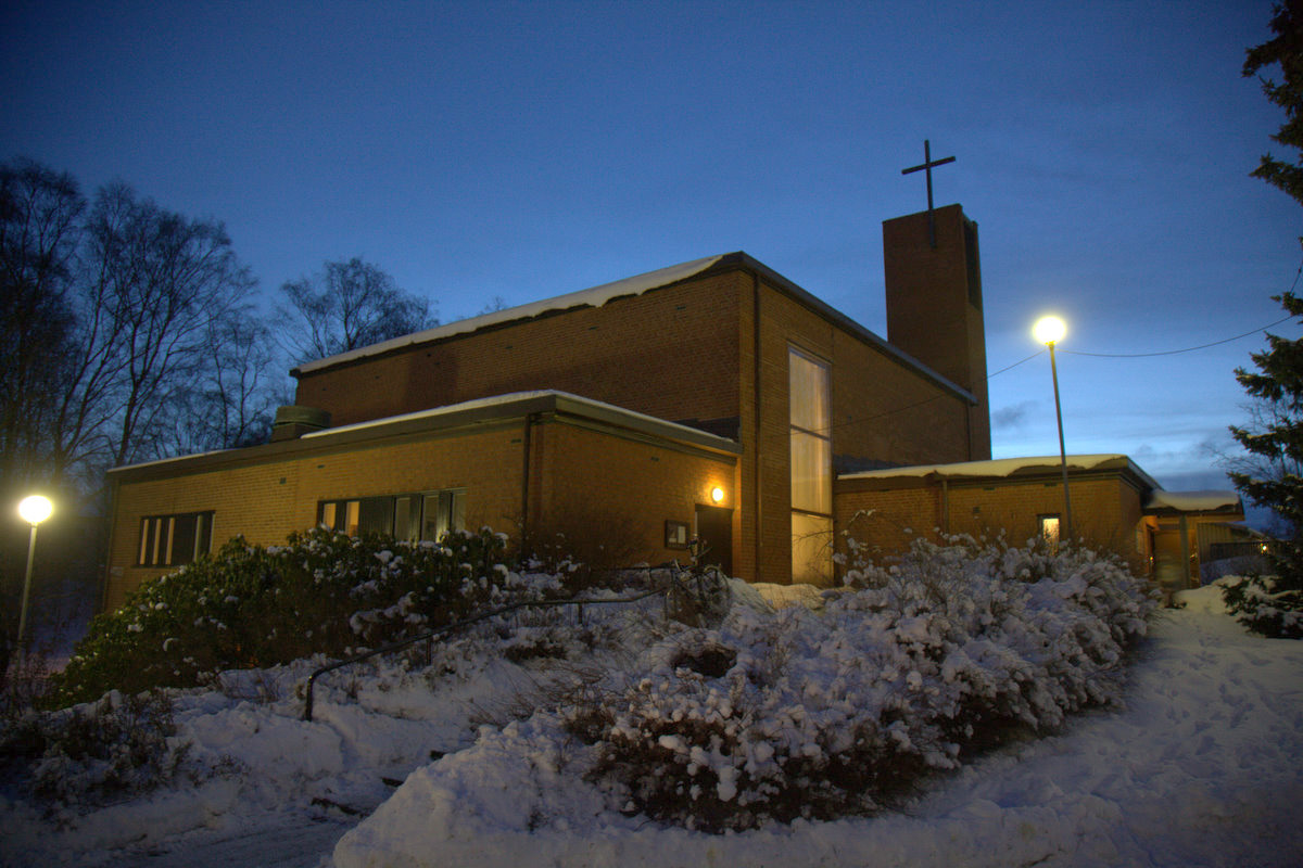 Buråskyrkan an early morning in February with unusually much snow